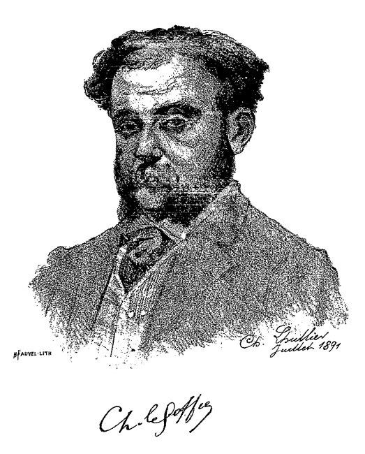 French poet Charles Le Goffic (1963-1932) by Charles Lhuillier (1824-1898)